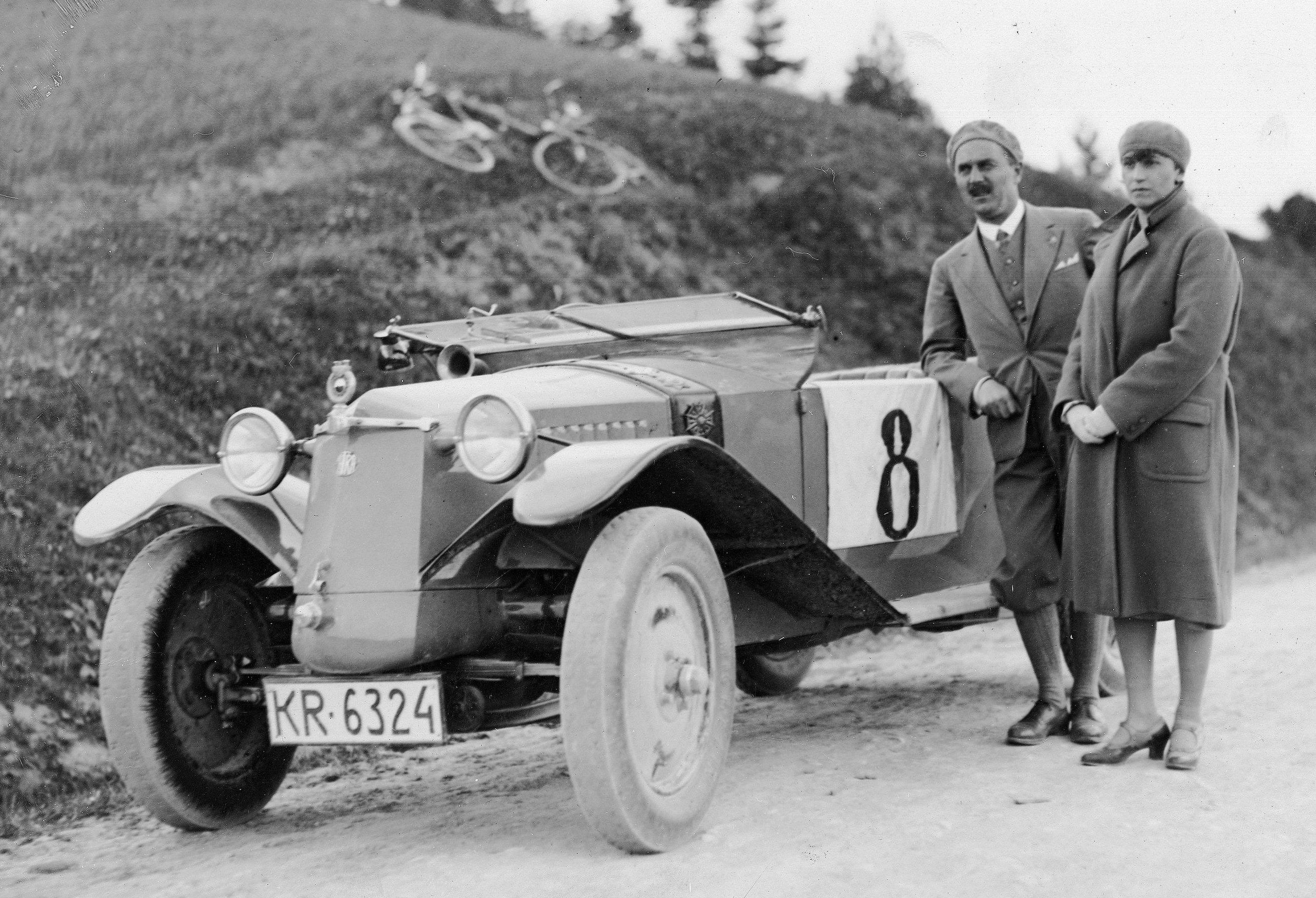 A race in Krzyżowa, Poland. Tatra car of Adam Dygat (Kraków license plates).